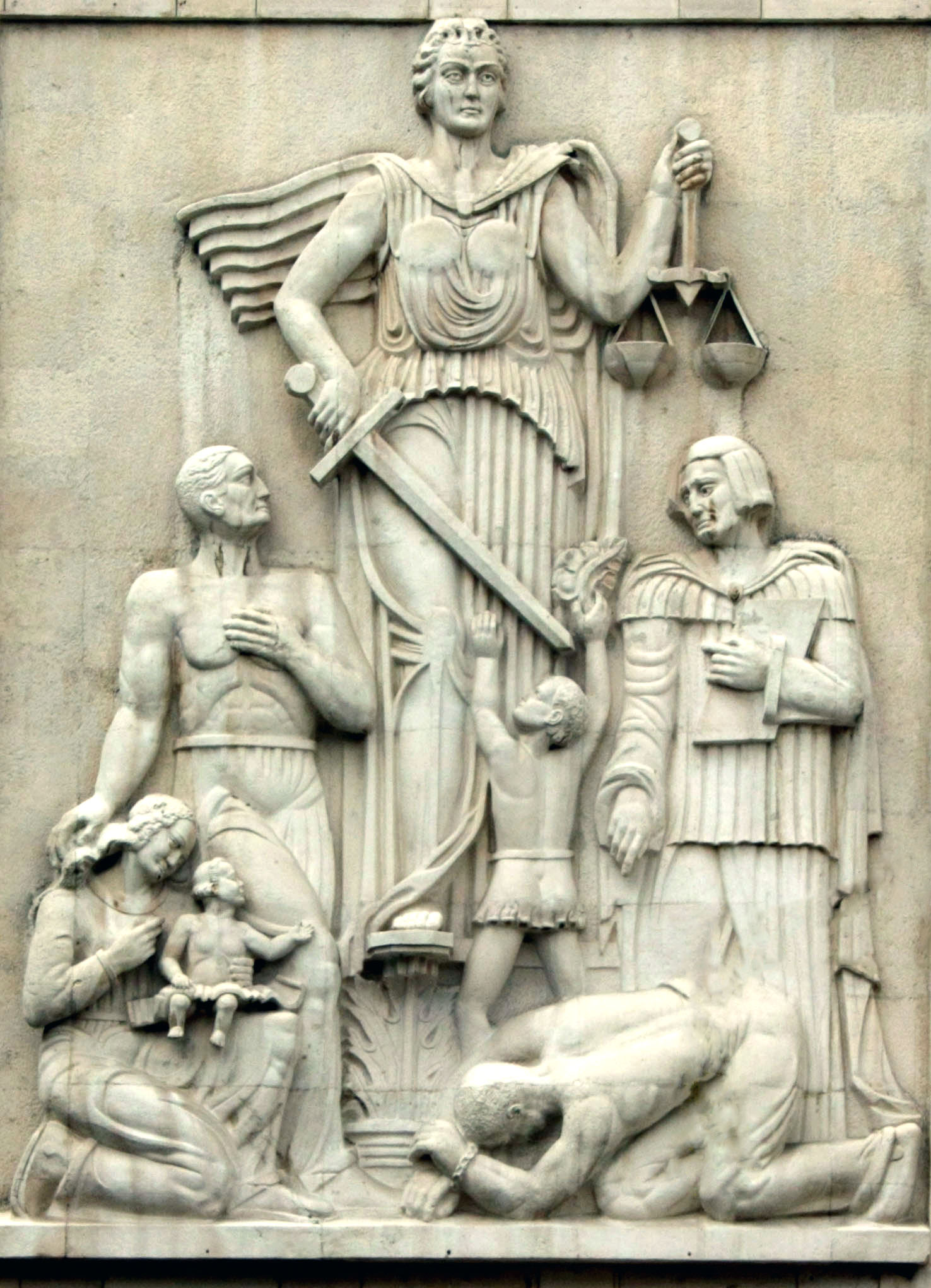 Justice Statue bas-relief on Palace of Justice, Tehran, Iran